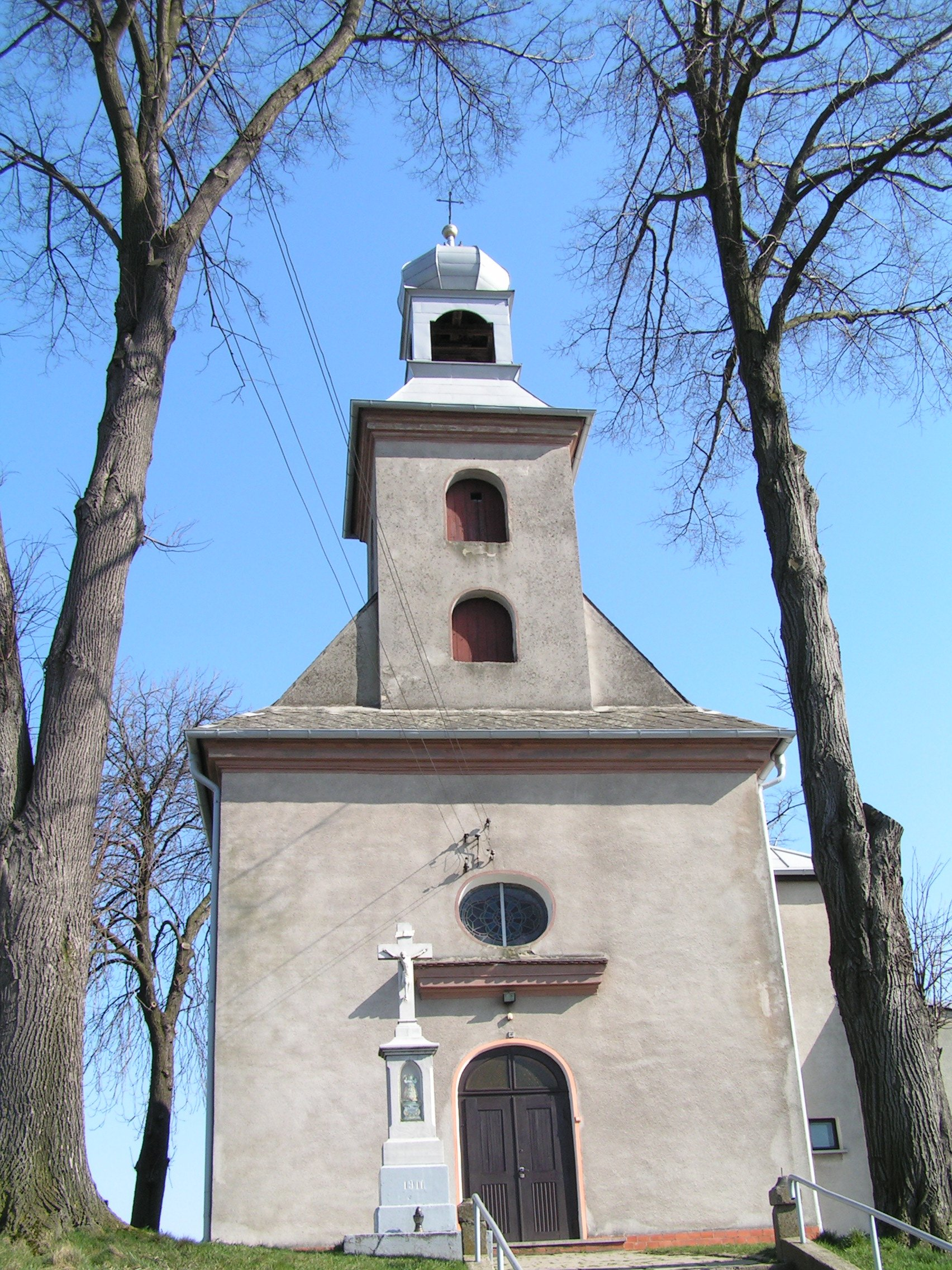 Church in Ligota Toszecka